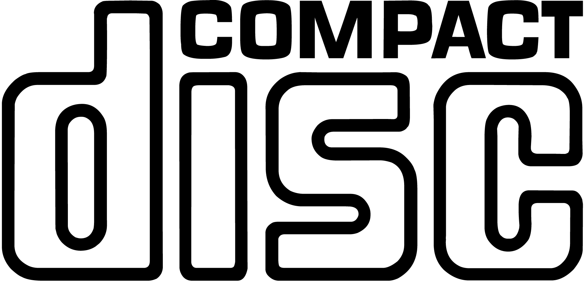 Compact Disc logo